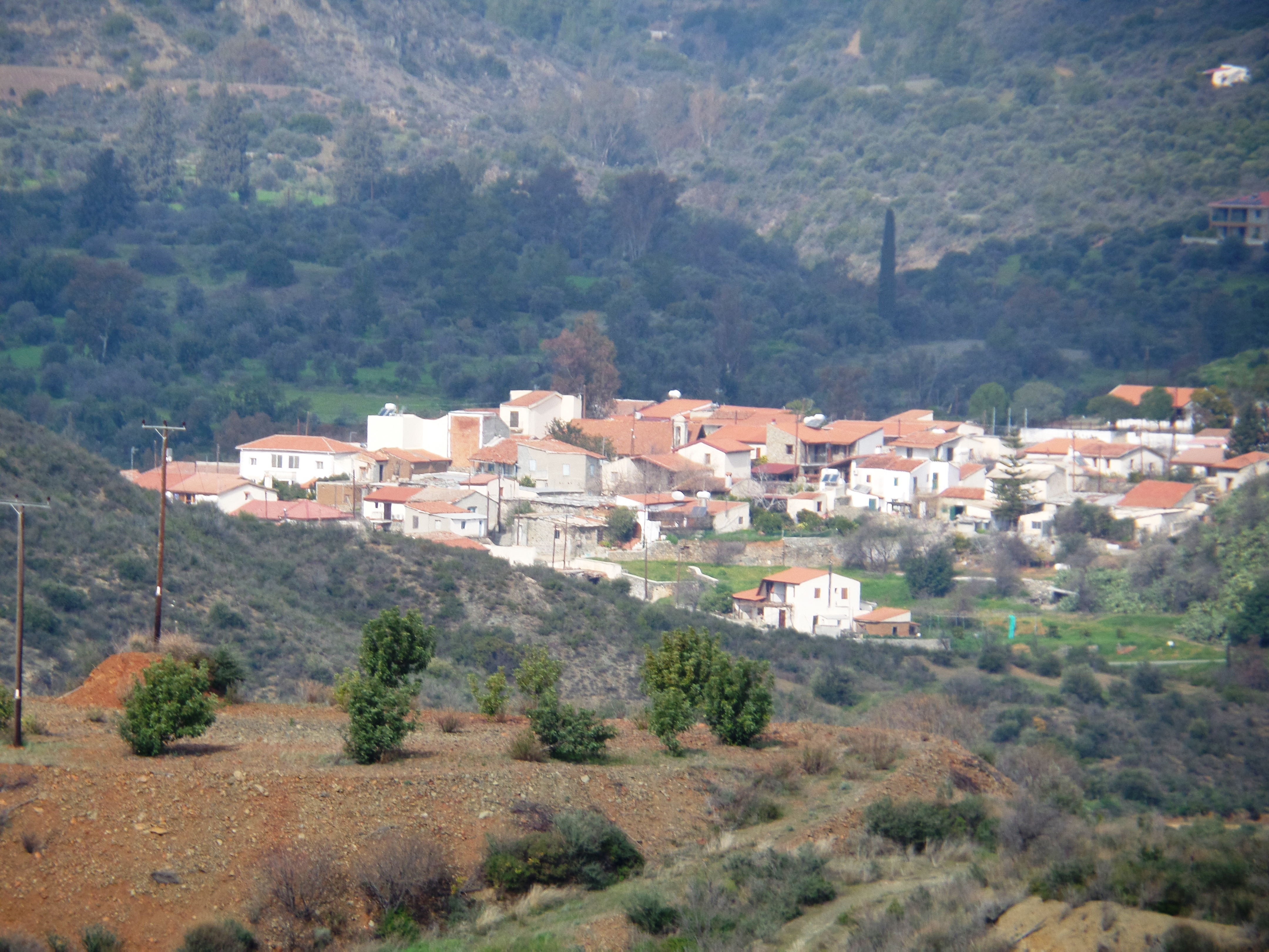 View of Akapnou.